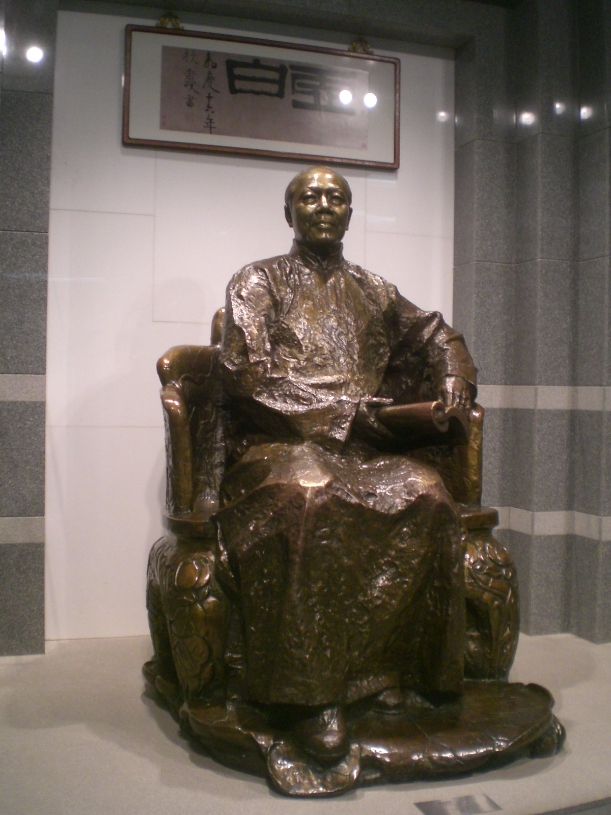 尖沙咀 香港藝術館 華人企業家 中國男性 藝術中的中國人物 雕塑 男性雕塑 劉作籌 (1911-1993) 廣東潮安縣人 - 香港著名藝術品收藏家